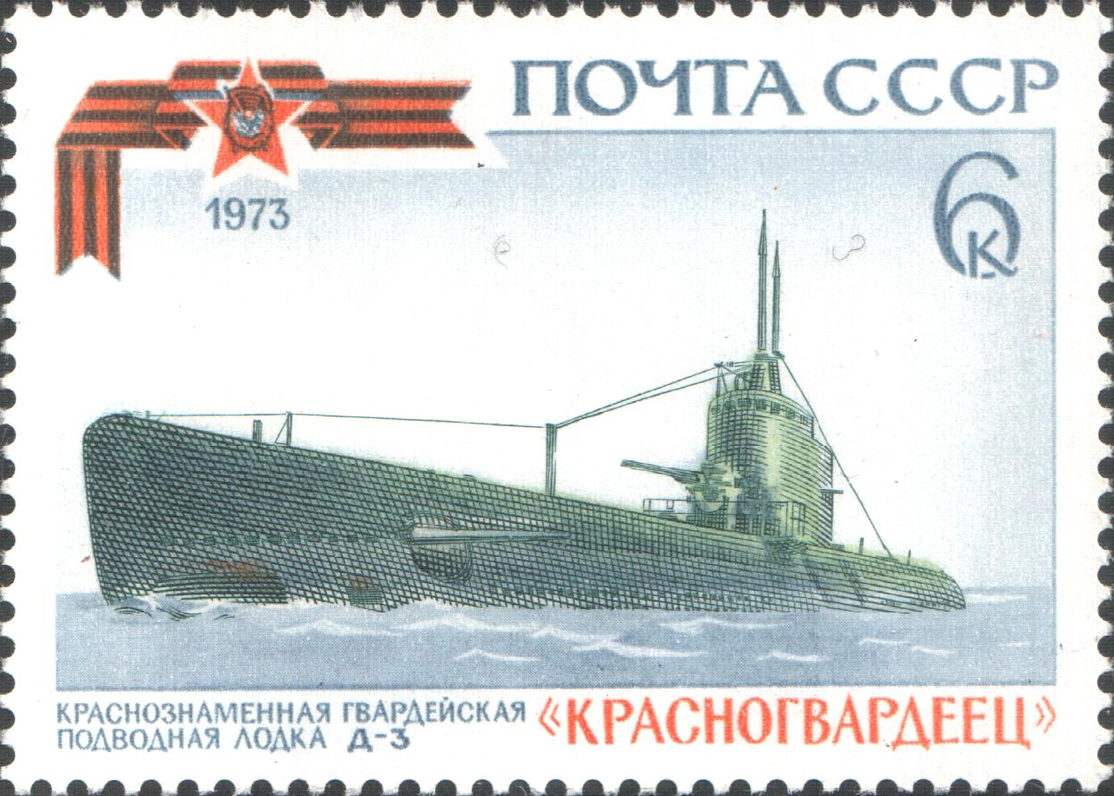 USSR stamp